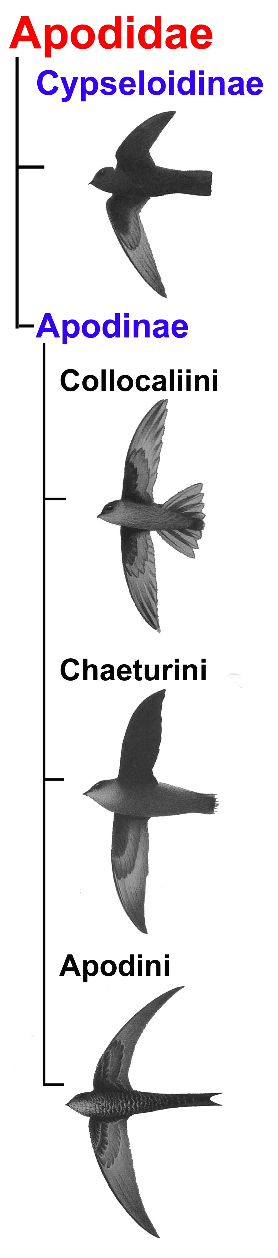 Overview of swift systematics, pictures inspired from: Phil Chantler, Gerald Driessens: A Guide to the Swifts and Tree Swifts of the World; Pica Press; Mountfield 2000; ISBN 1-873403-83-6